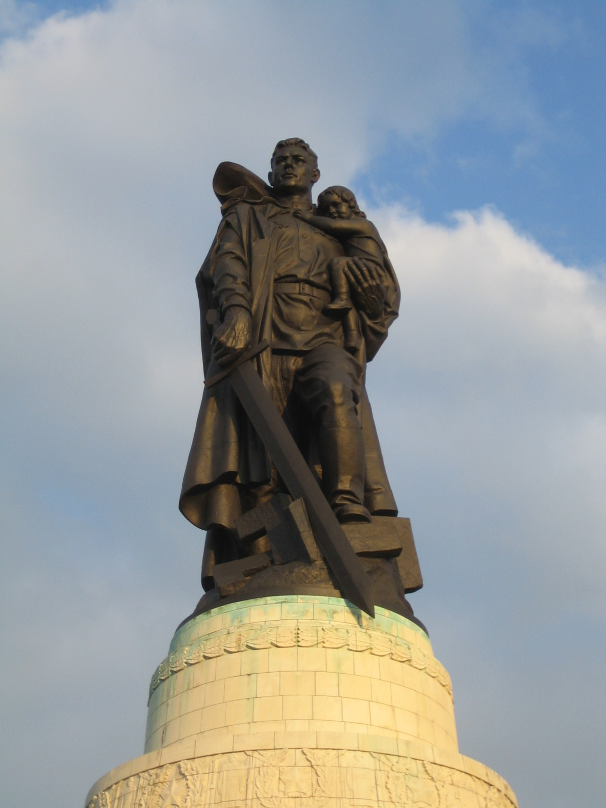 Soviet Cenotaph Berlin Treptower Park